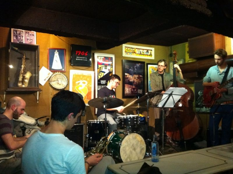 Iago Fernandez sextet playing at the Jazz Filloa